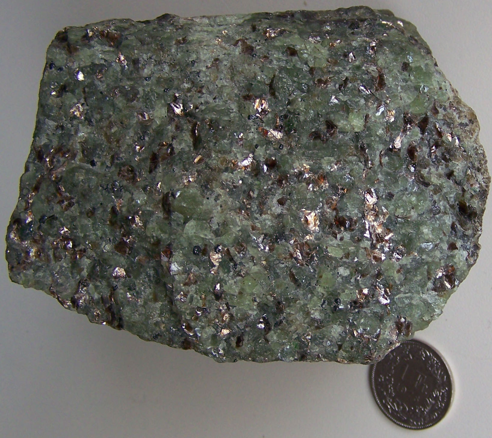 Phlogopite bearing peridotite. Location: Finero, Ivrea zone, Italian Alps. Collection of the Université de Neuchâtel. Coin of 1 Swiss franc (diameter 23,20 mm) for scale.